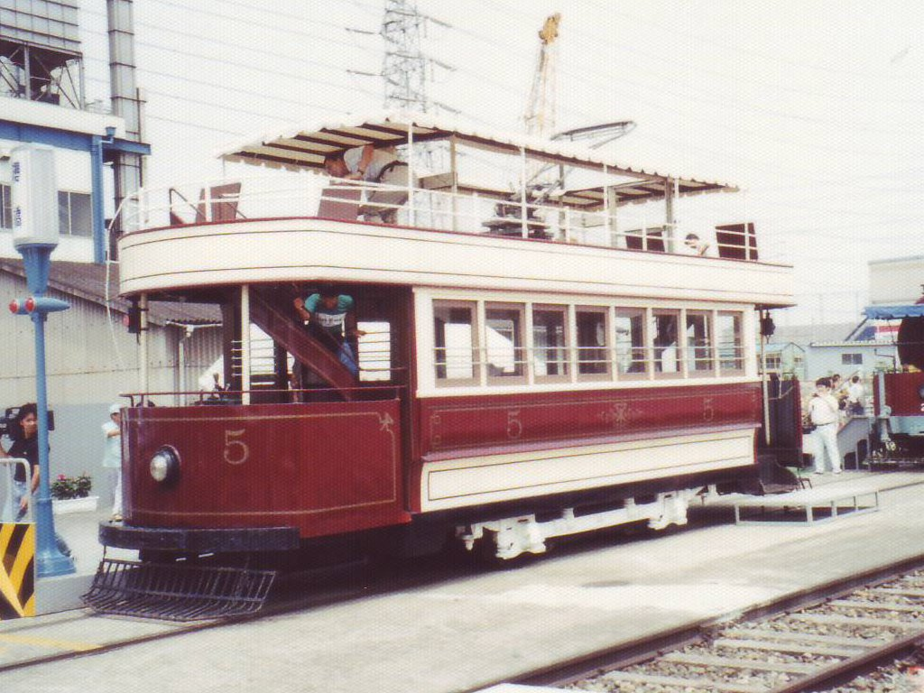 Osaka City Tram #5. taken in 1993.